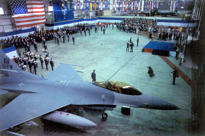 This photos shows the activation ceremony for the 31st Fighter Wing at Aviano AB, Italy, on 1 April 1994. (31st Fighter Wing History Office collection)